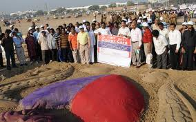 Mayor Saidai S.Duraisamy and Chennai Corporation Commissioner P.W.C. Davidar hold a banner to promote organ donation near a sand sculpture made as part of a rally organised by MOHAN Foundation on the Marina beach in Chennai